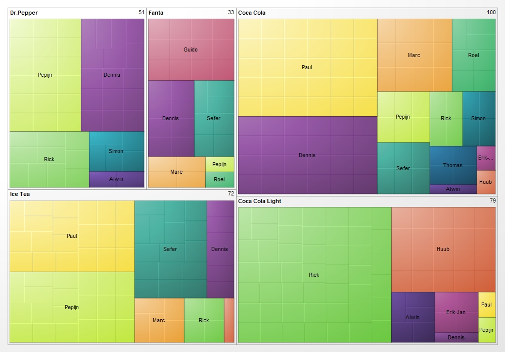 Treemap using color and gradients to distinguish nodes in a group. This allows for more room in the image to be used by nodes, since less room is needed for whitespace between groups. This is an alternate implementation based on cushioned treemap algorithms.